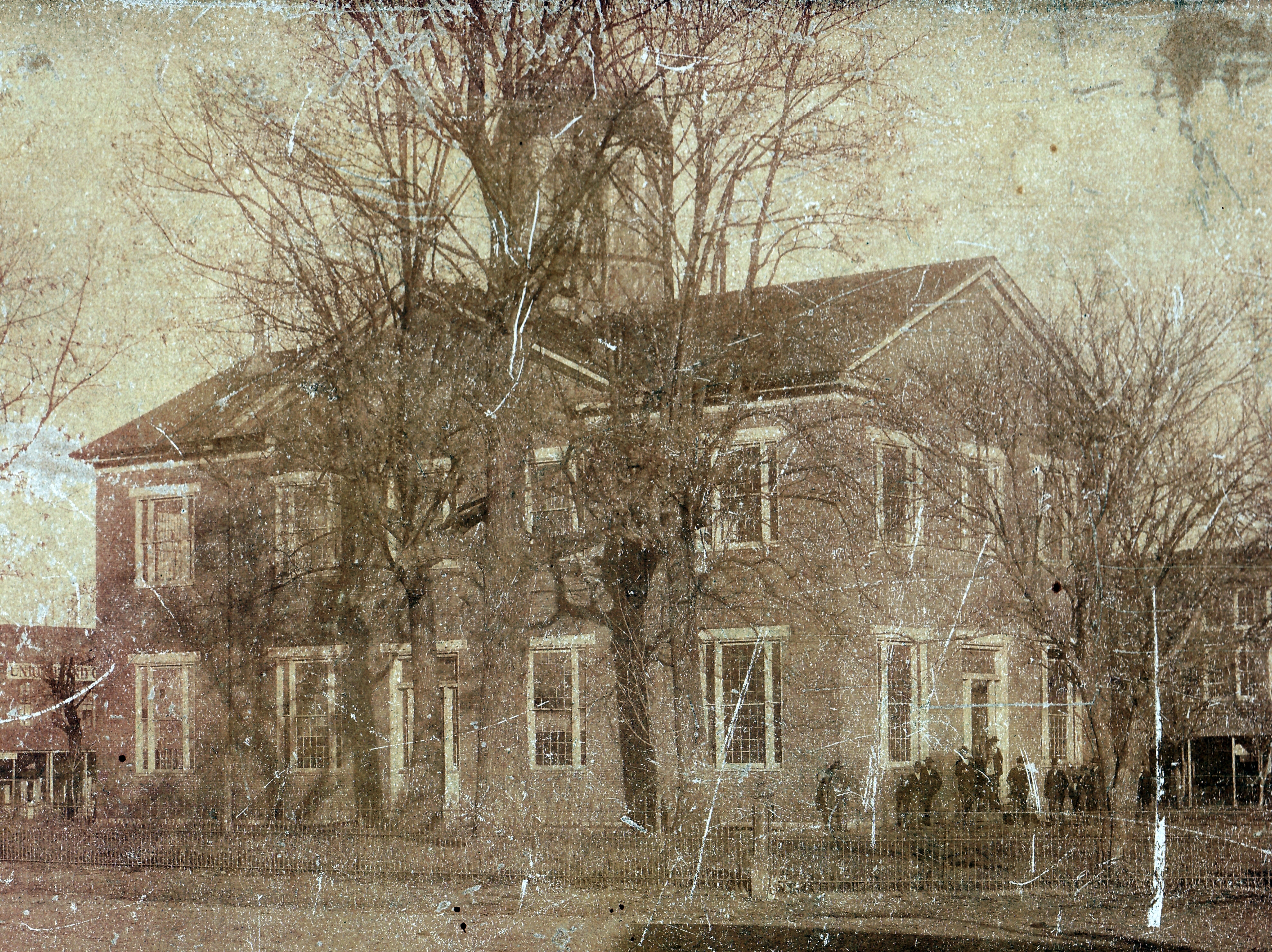 Third Henry County (Tennessee) Courthouse, built 1852, demolished 1895. Camera is facing northwest.